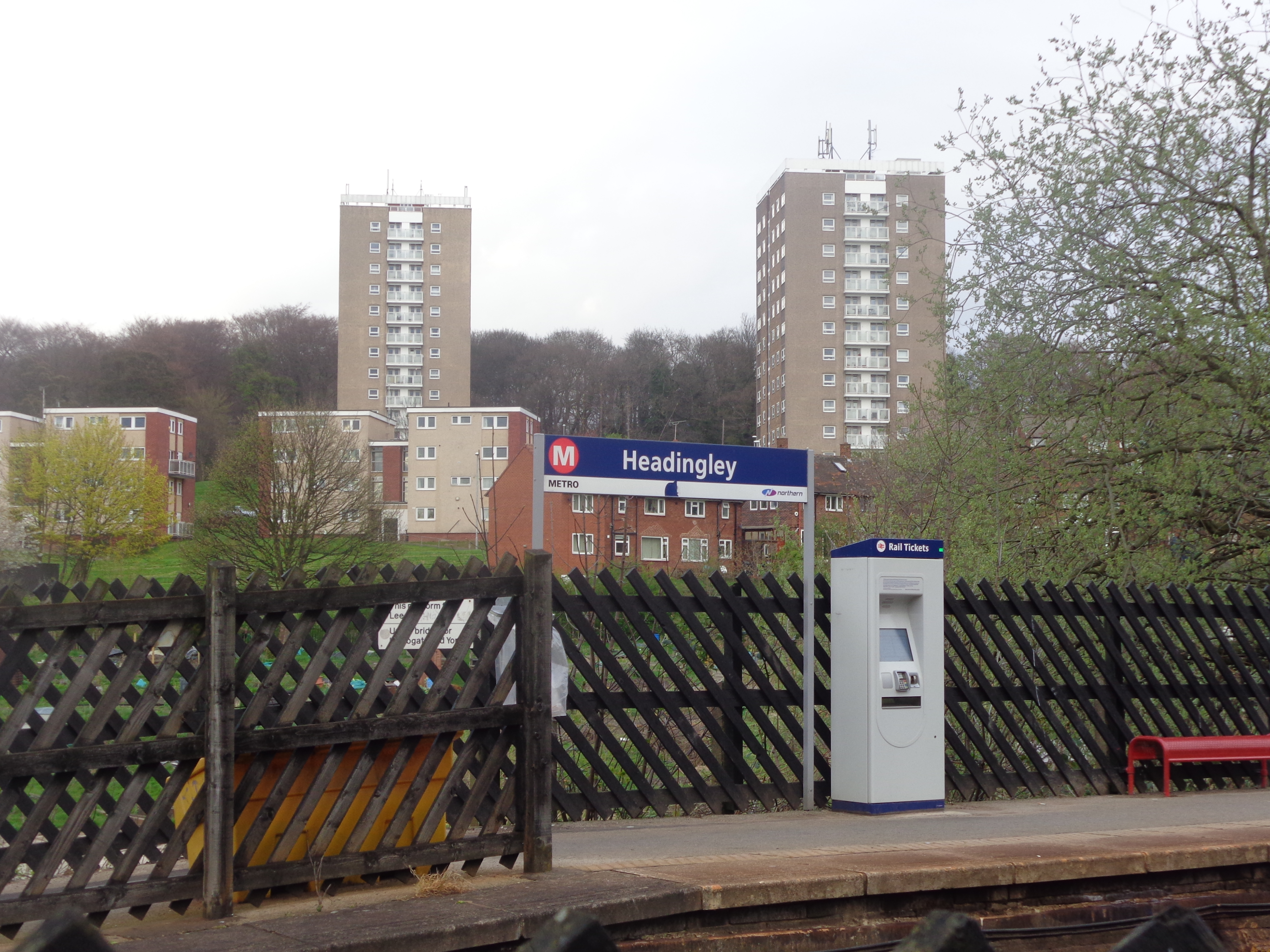 Headingley railway station, Headingley, Leeds, West Yorkshire. Taken on the evening of Saturday the 12th of April 2014.